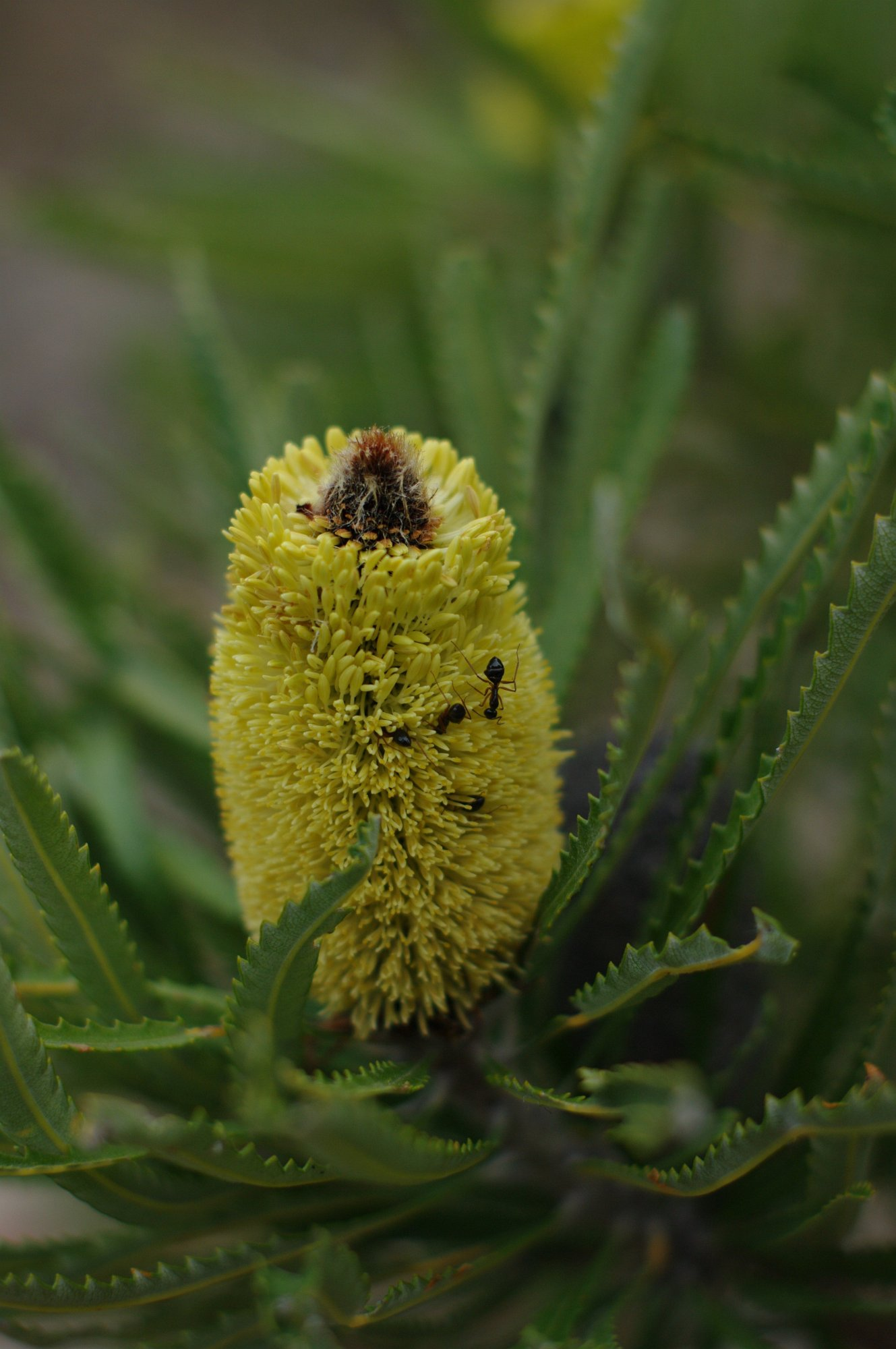 Banksia attenuata in Wireless hill reserve Booragoon Western Australia With ants feeding on the necter